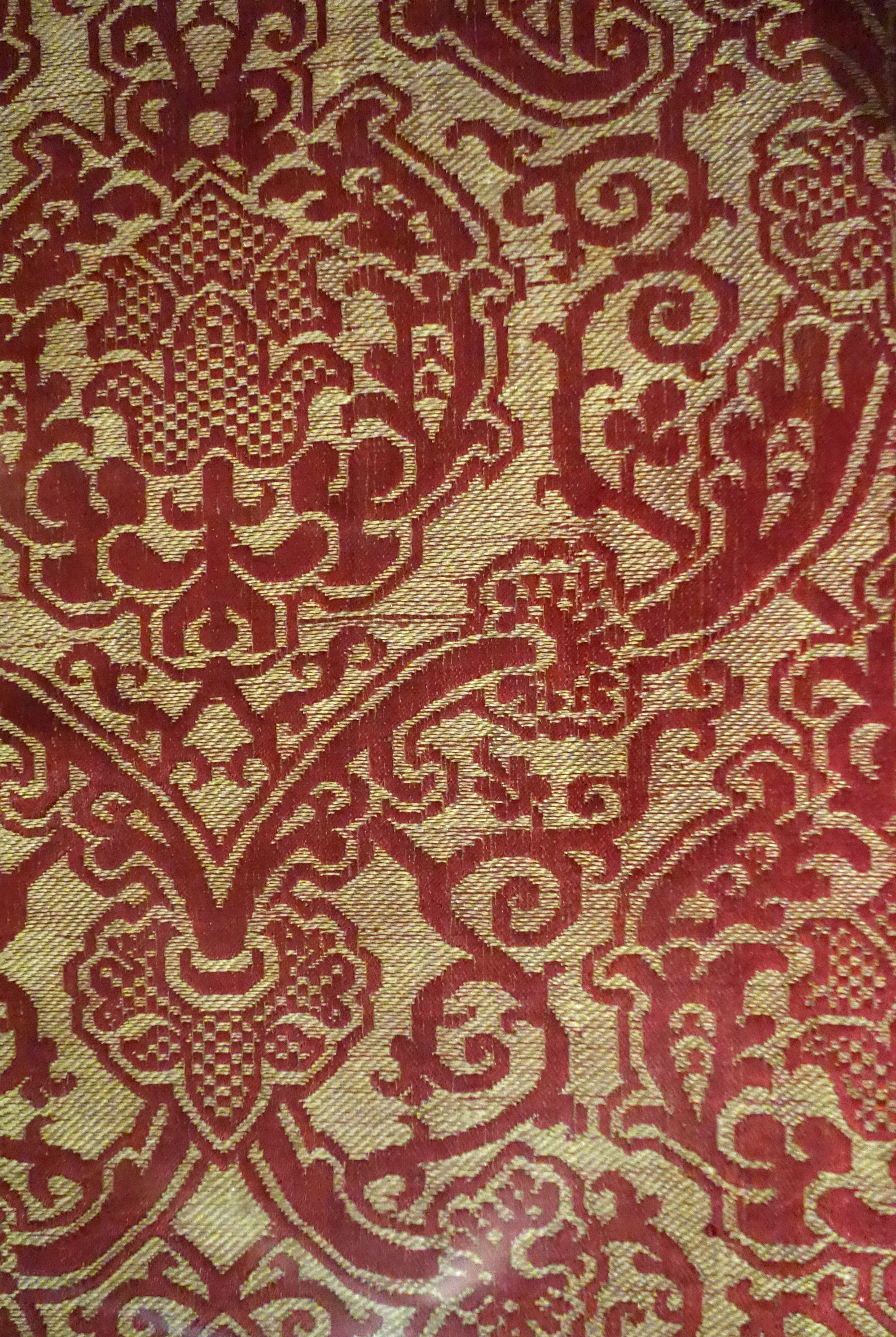 Exhibit in the Royal Ontario Museum, Toronto, Ontario, Canada. This work is old enough so that it is in the public domain.